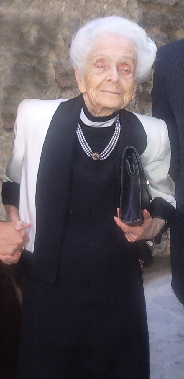 Photo of Rita Levi Montalcini, italian senator, Nobel prize neurologist. Photo taken in San Gemini, Italy. Left side 'chopped to edit out a bystander.